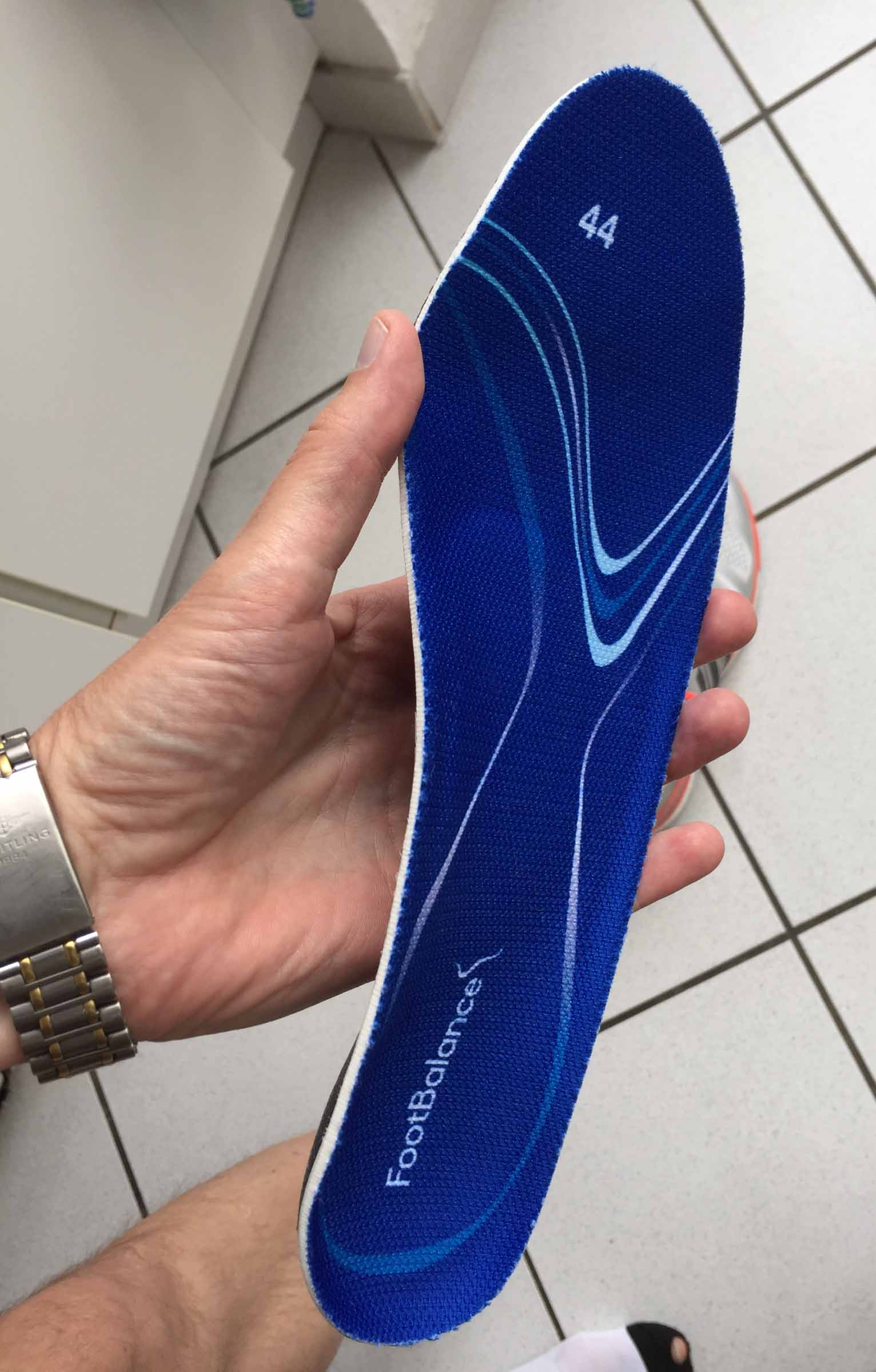 This insole was heated and customised to fit the user's foot, while the user was standing on a footbed to give the insole a proper form